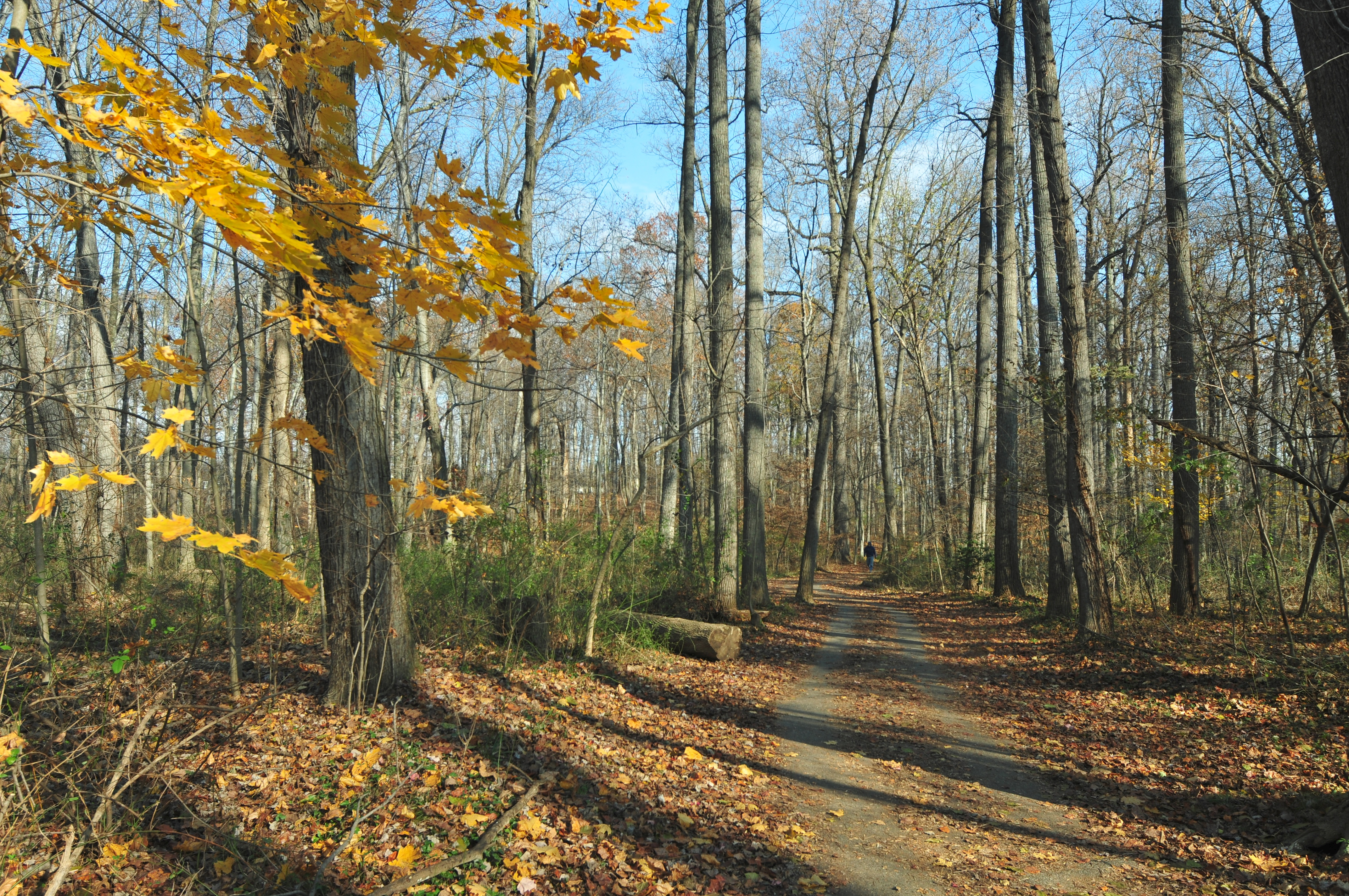 Sligo Creek hiker-biker trail in Forest Glen, MD